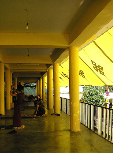 Tsuglagkhang temple, overlooking the McLeod Ganj, en:14th Dalai Lama's residence